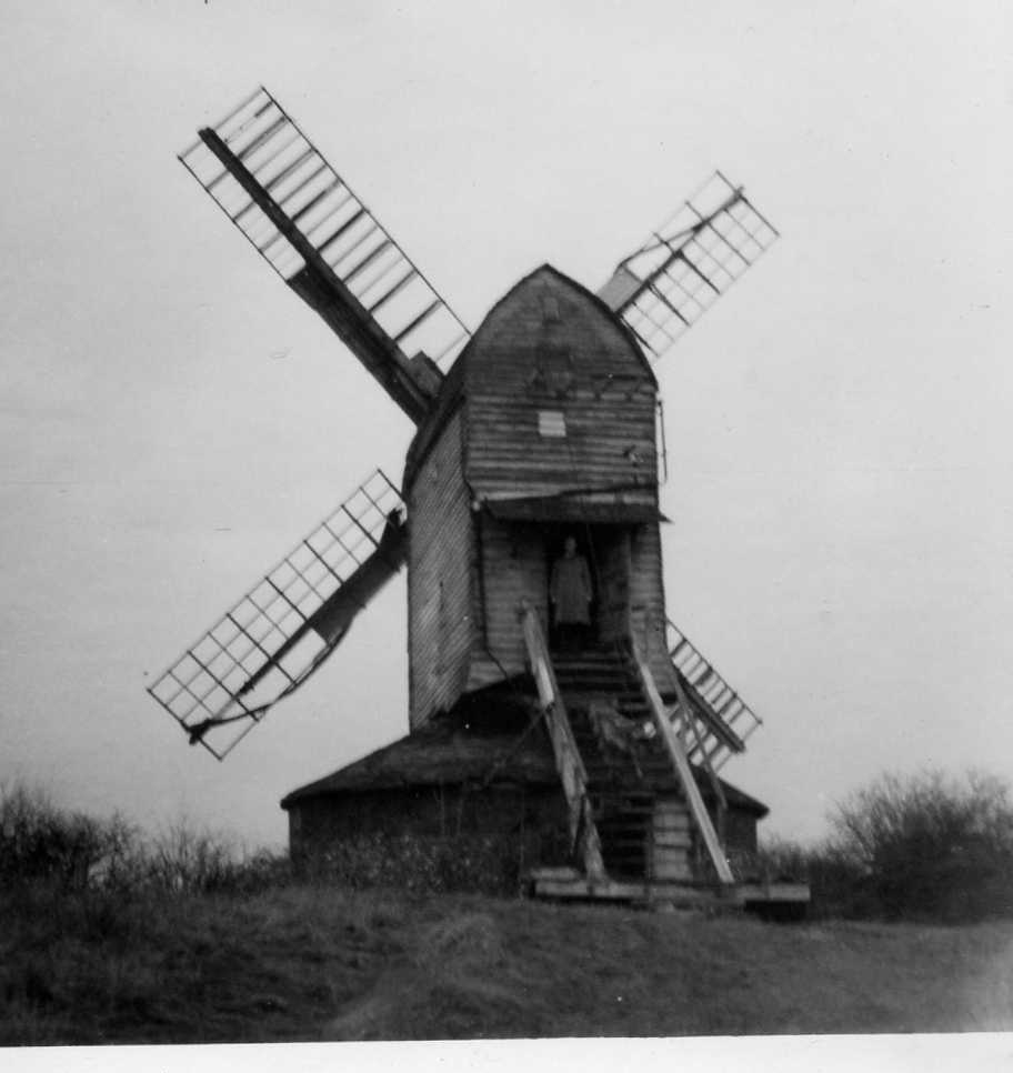 If you look closely at the body of the mill, you can see that it has been turned round during its life.....this was once the end which the sails emerged from. Quite unusual for one of the last working windmills that it was turned to the wind manually and that 2 of the sails used the laborious sail cloth method of catching the wind. The other pair of sails were spring loaded shutters. Even these required the mill to stop for adjustment.